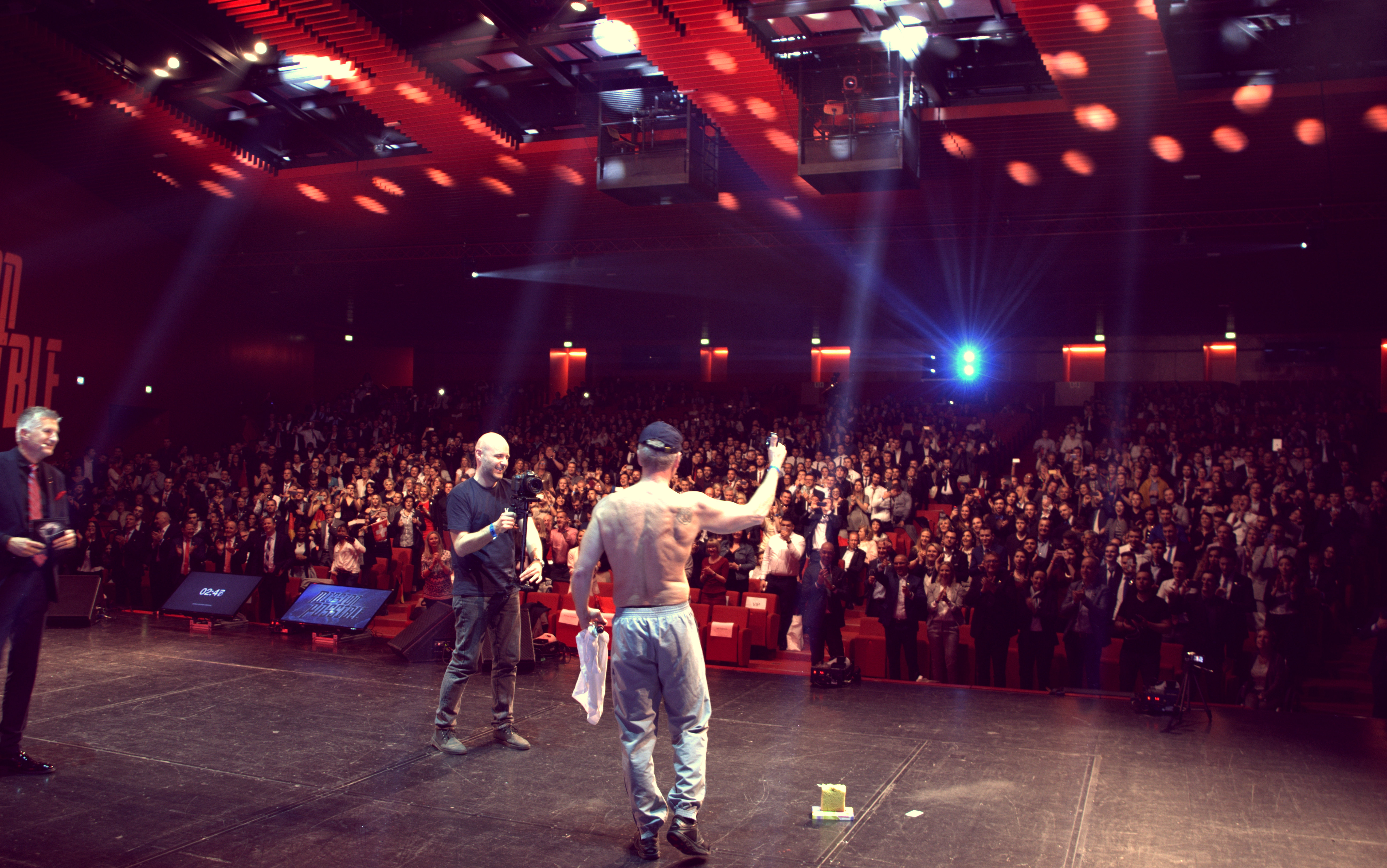 My 5th Guiness Worldrecord. Categorie: "most knuckle pushups in one minute". Regaining my Worldrecord with 101 Repetitions.